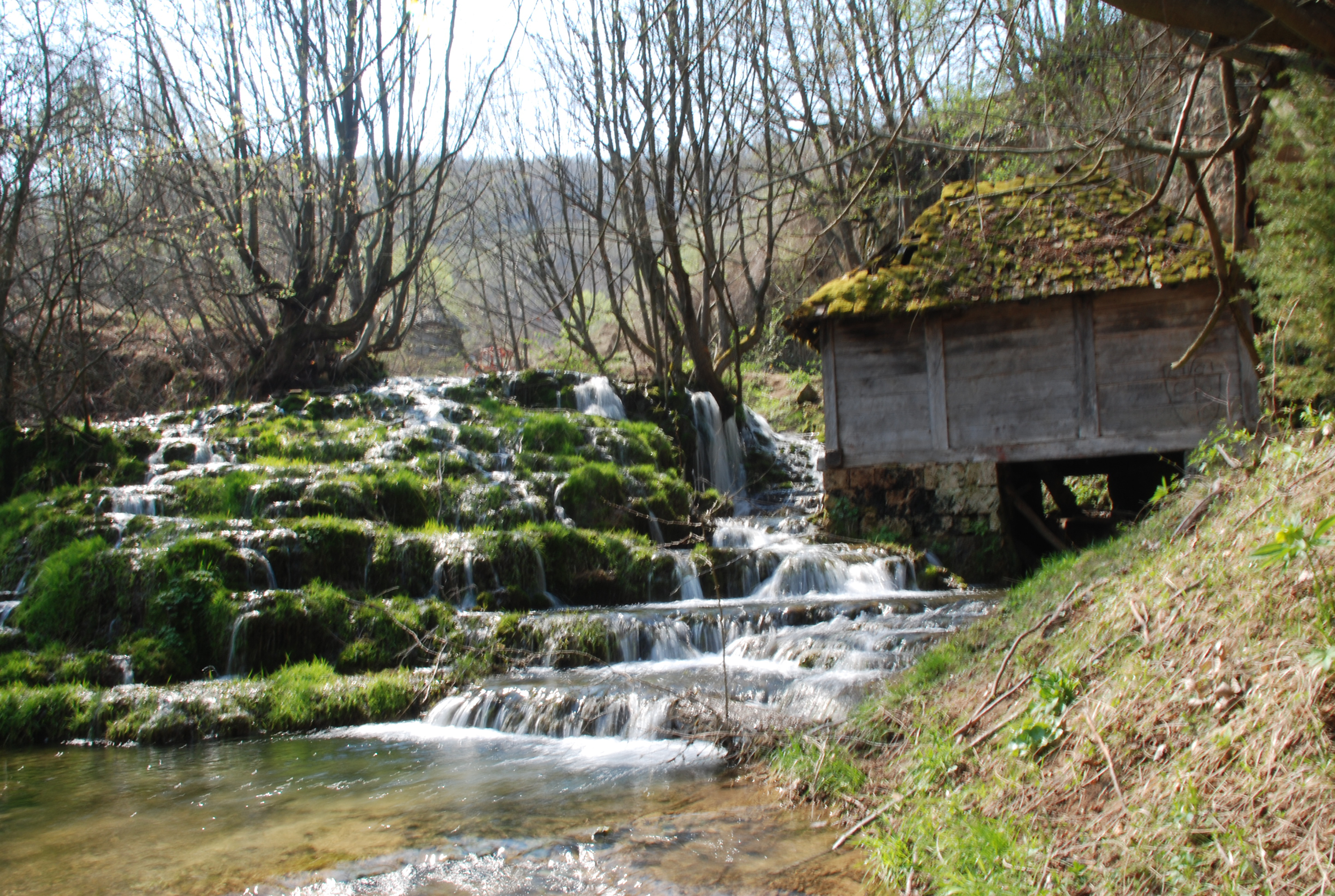 Povlen - Western Serbia - Natural springs Taorska vrela - Detail of a waterfall with old watermills 6